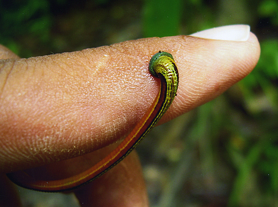 Colorful and hungry, these are a feature of much of Borneo. Photo from Kelandaun Lake area, northeastern Sabah. In context at